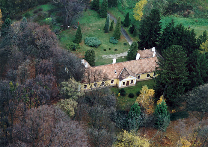 Csesztve - Hungary - Europe